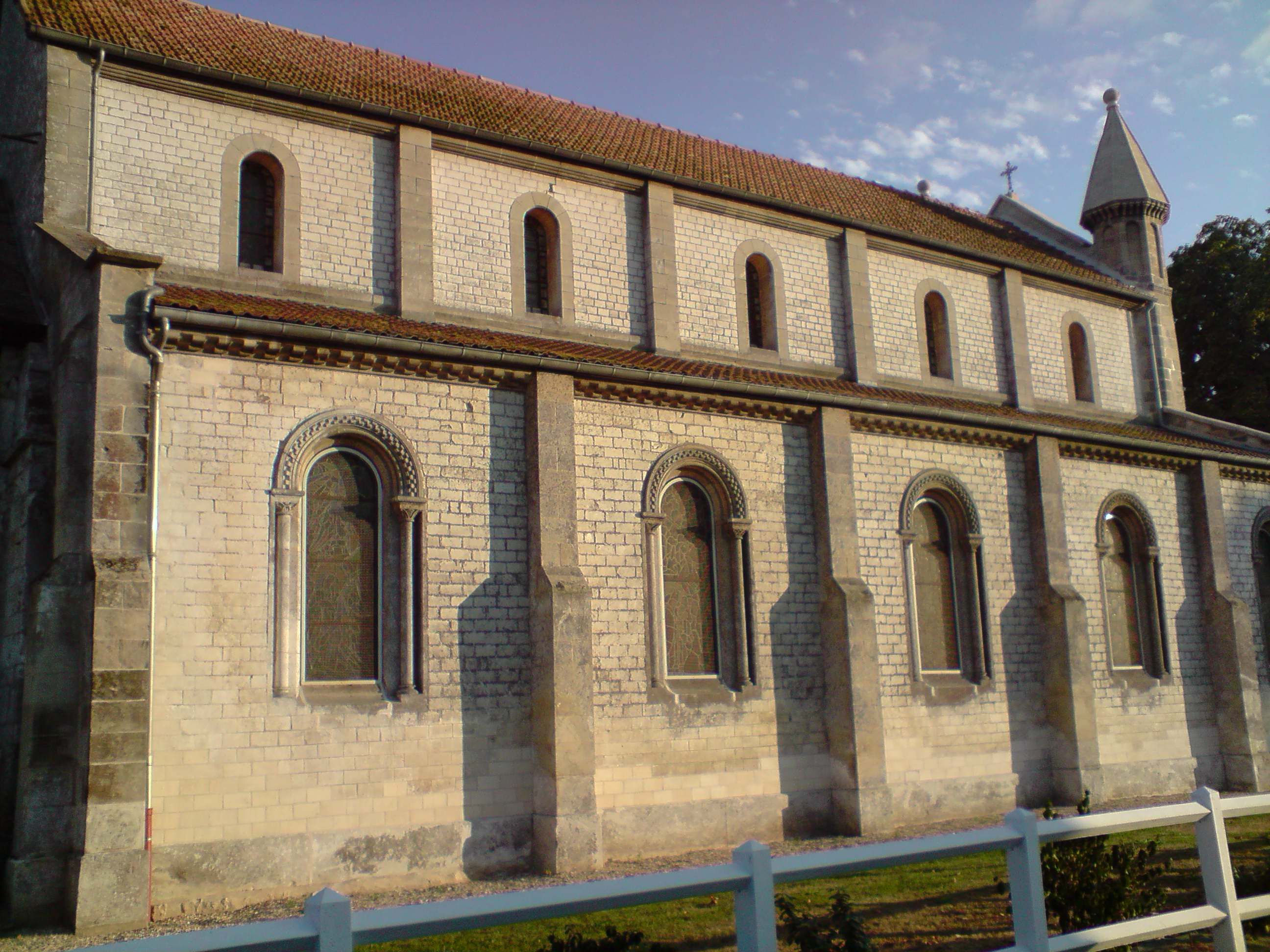 Church of the city of Muids, Eure, France.